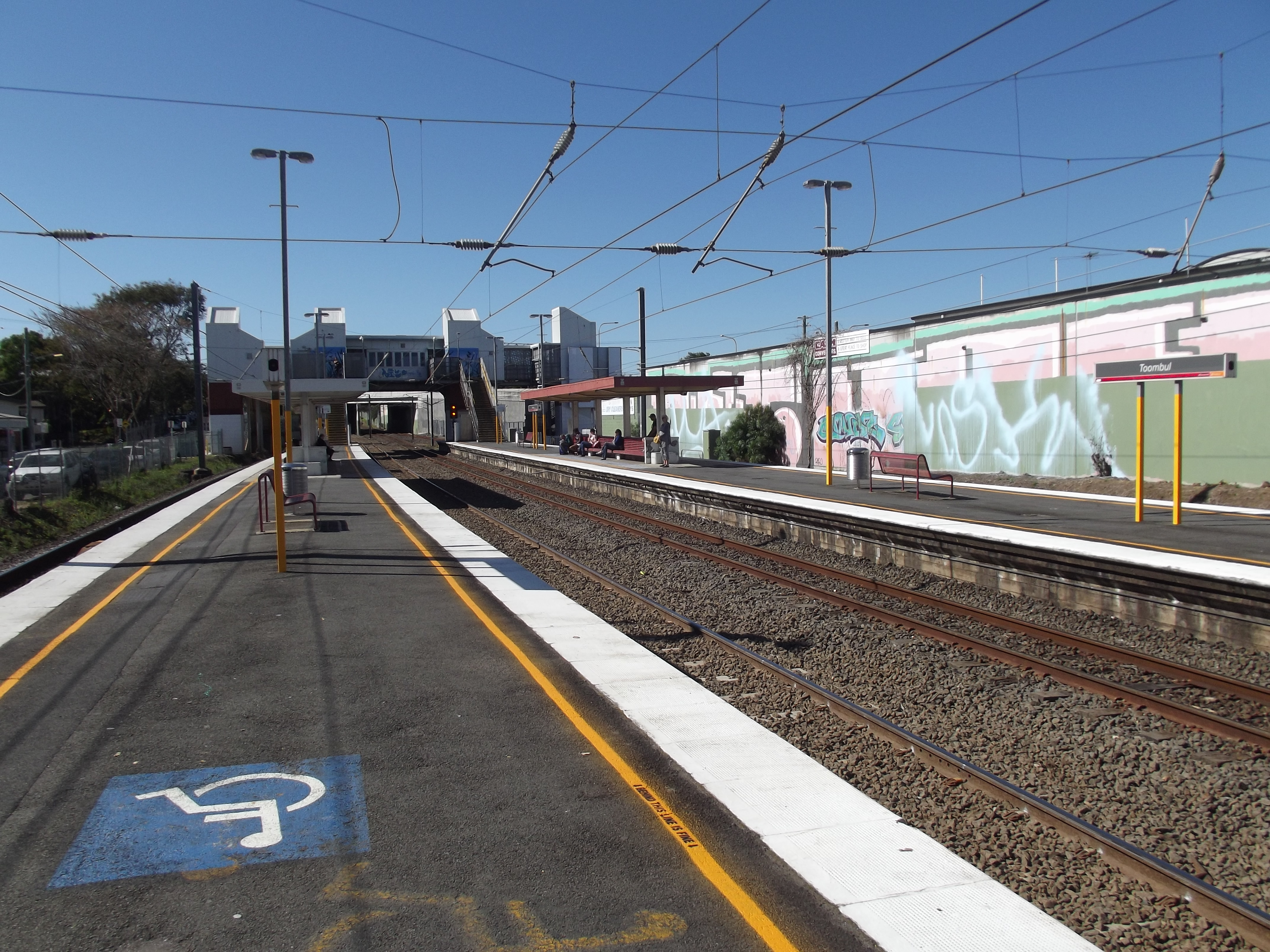 Toombul station, on the Caboolture/Shorncliffe line.